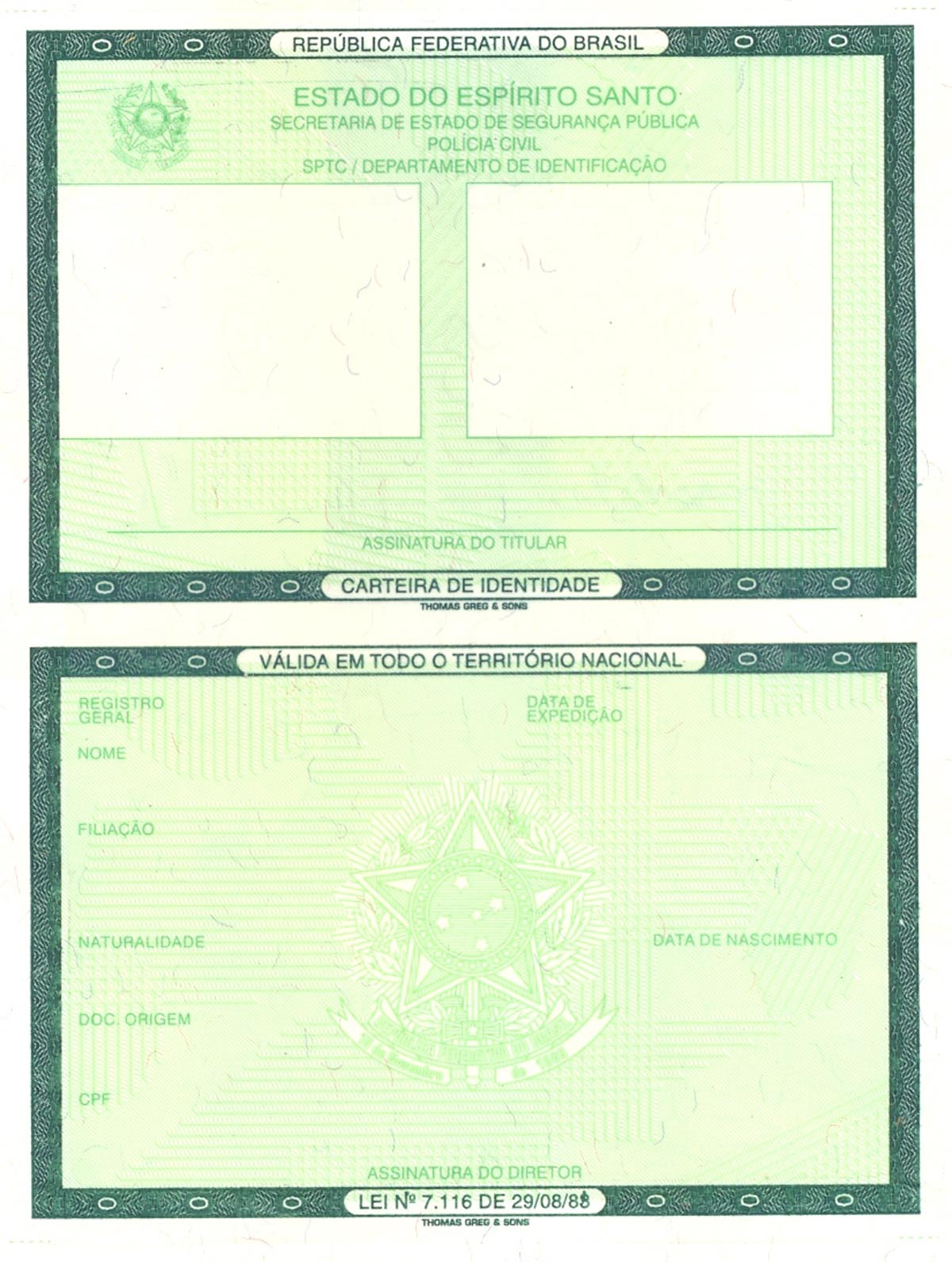 New model of the Brazilian identity card